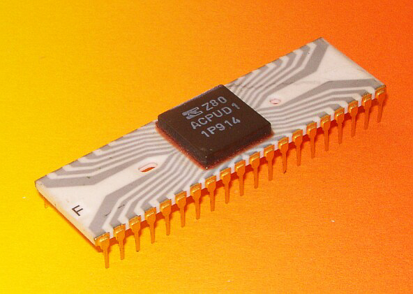 SGS Ates Z80A